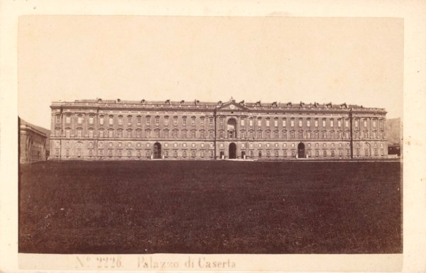 Sommer (1834-1914) & Behles (1841-1924) - "Royal Palace at Caserta". Catalogue number: 2228.